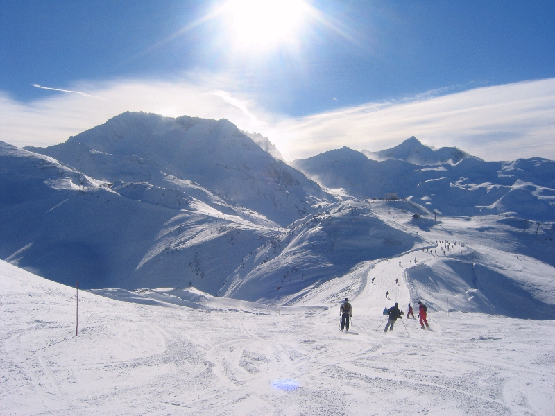 A ski track in Val Thorens, part of Les Trois Vallées